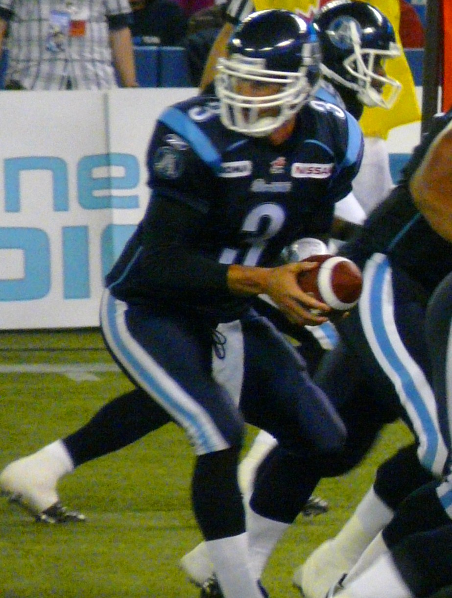 Cody Pickett of the Toronto Argonauts prepares to hand-off the ball.